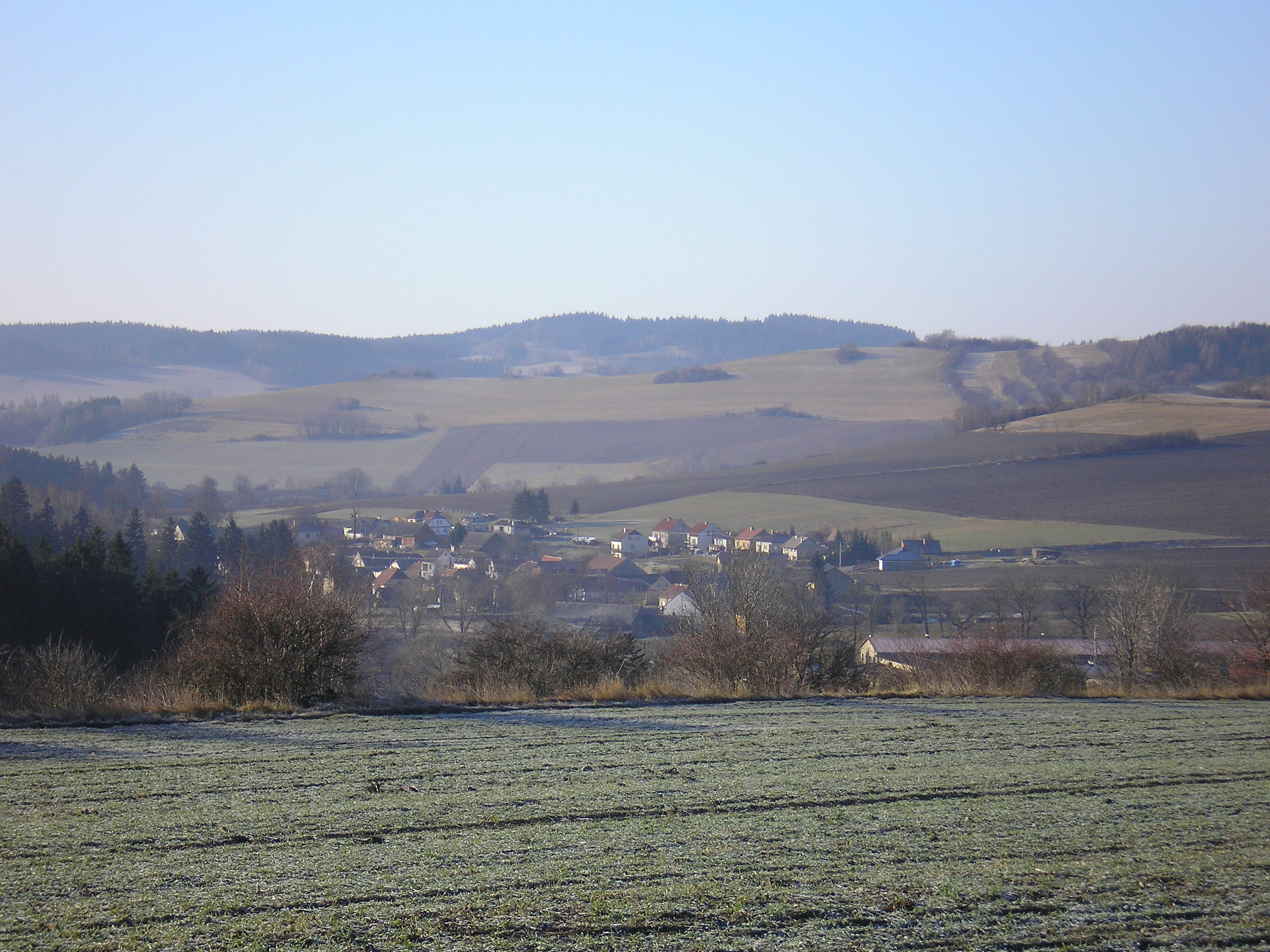 Křtěnov